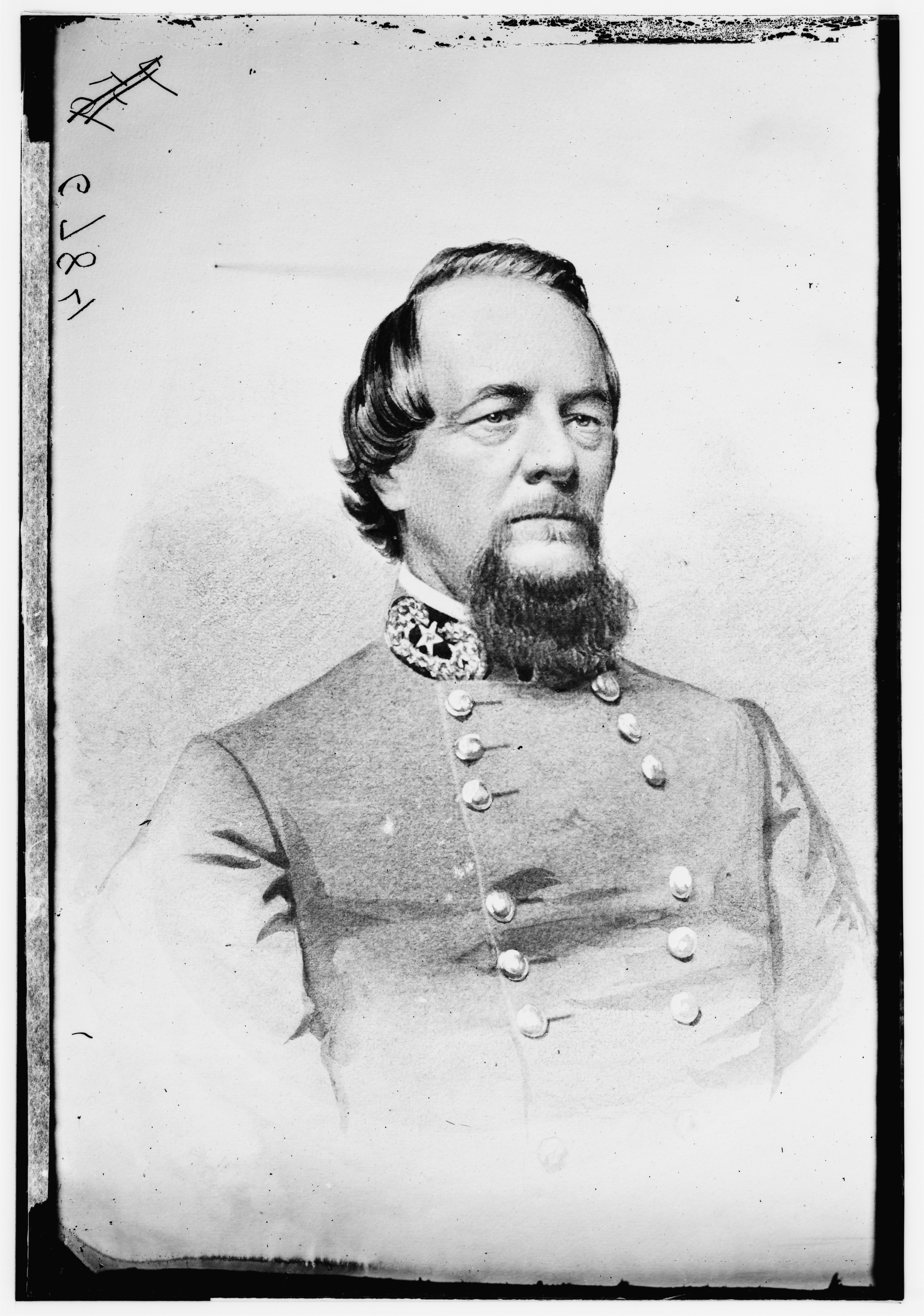 Title: Edward Johnson, C.S.A. Physical description: 1 negative